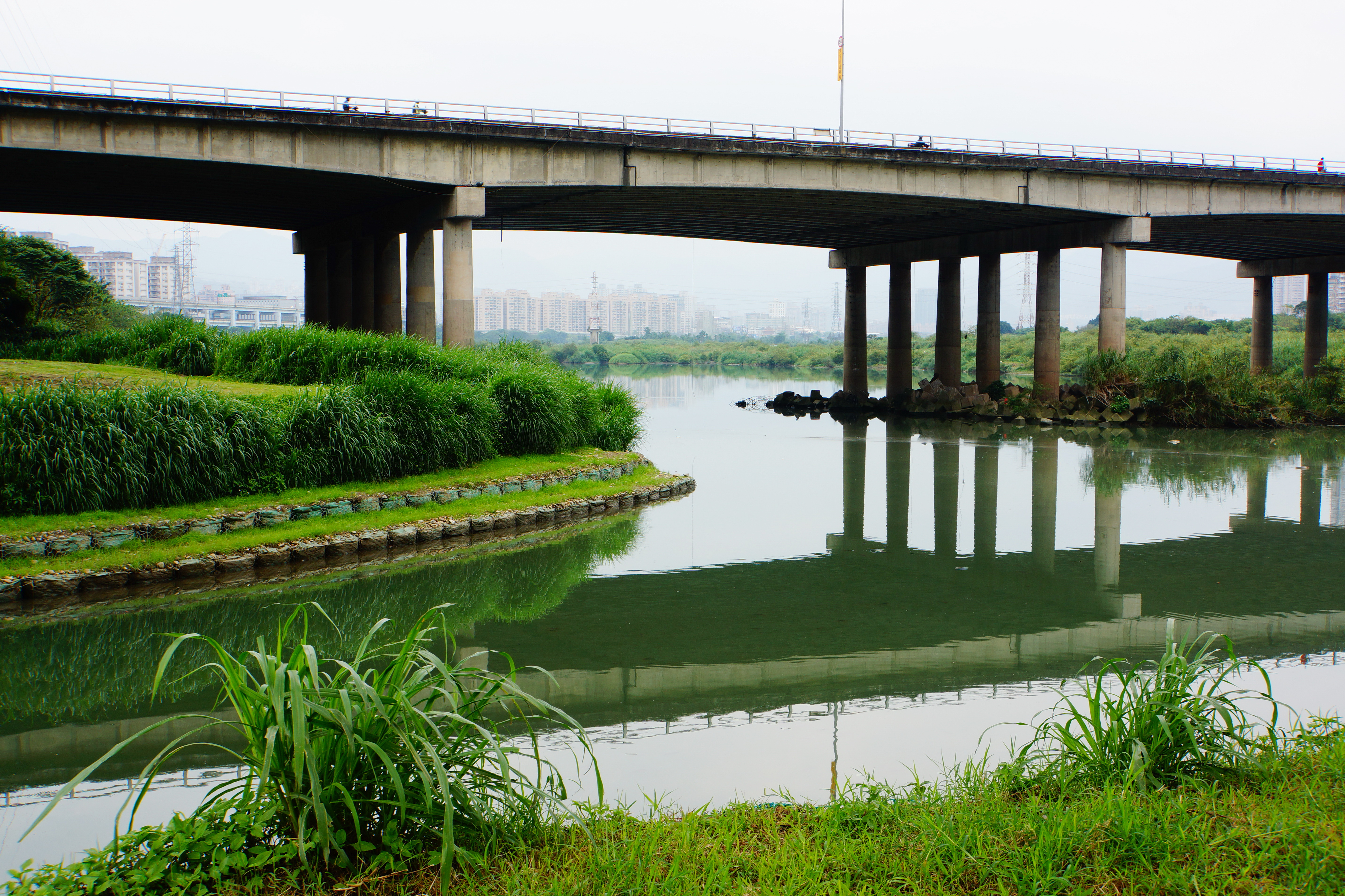 Fuhe Bridge